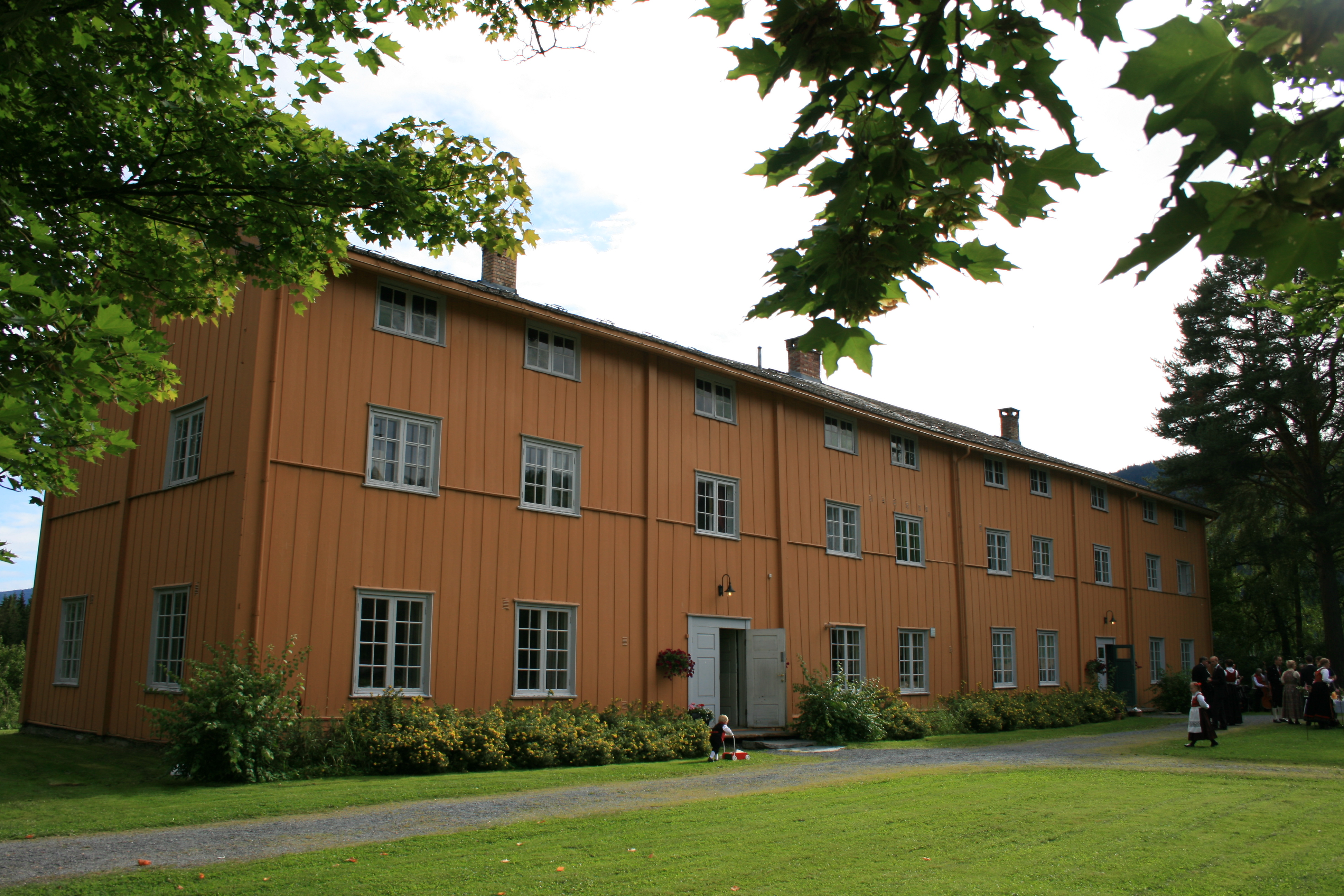 Prestegården i Østre Gausdal